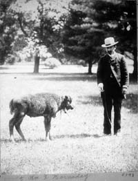 William Temple Hornaday und ein Bisonkalb